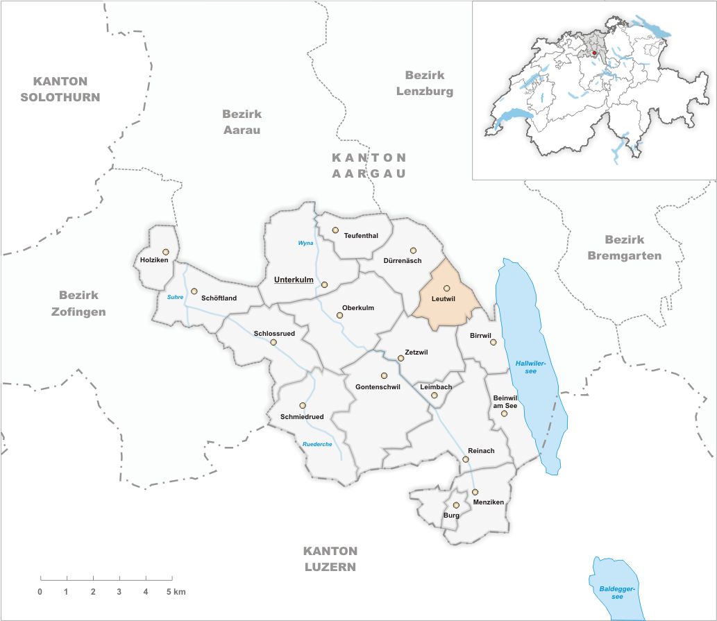 Municipality Leutwil